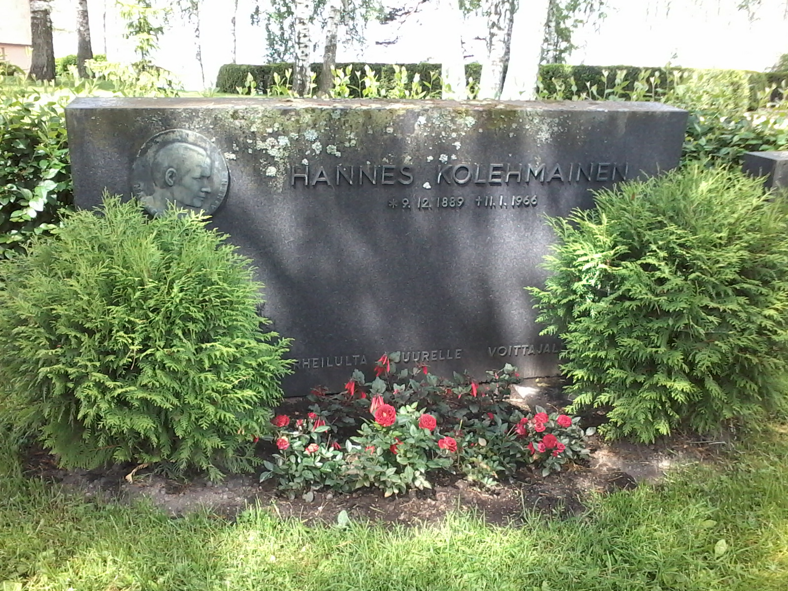 Olympic champion, Stockholm 1912